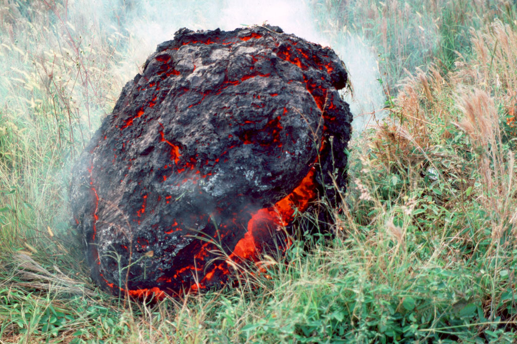 Accretionary lava ball comes to rest on the grass after rolling off the top of an ‘a‘a flow in Royal Gardens subdivision. Accretionary lava balls form as viscous lava is molded around a core of already solidified lava.